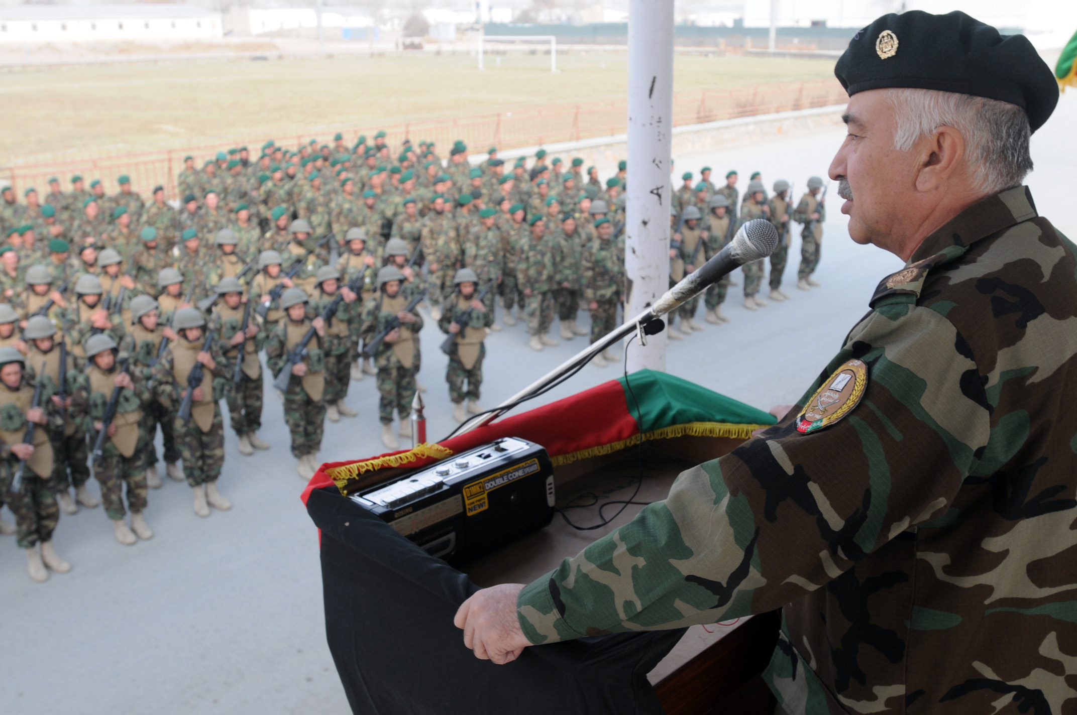 Afghan Lt. Gen. Ameenullah Karim speaks to three companies of soldiers in a parade review during a deployment ceremony held in Kabul, Nov. 22, 2009. Gen. Karim, commander of the ANA education department, spoke to the soldiers of their duty and commitment to their mission. The Afghan National Army took another step closer to meeting their goal of a 134,000-man army by October, 2010, during the ceremony before the deployment of almost 800 soldiers from accelerated companies. The accelerated companies finished their training at the Kabul Military Training Center, which trains soldiers under a five-week schedule. (U.S. Navy photo by Chief Mass Communication Specialist (SCW) F. Julian Carroll